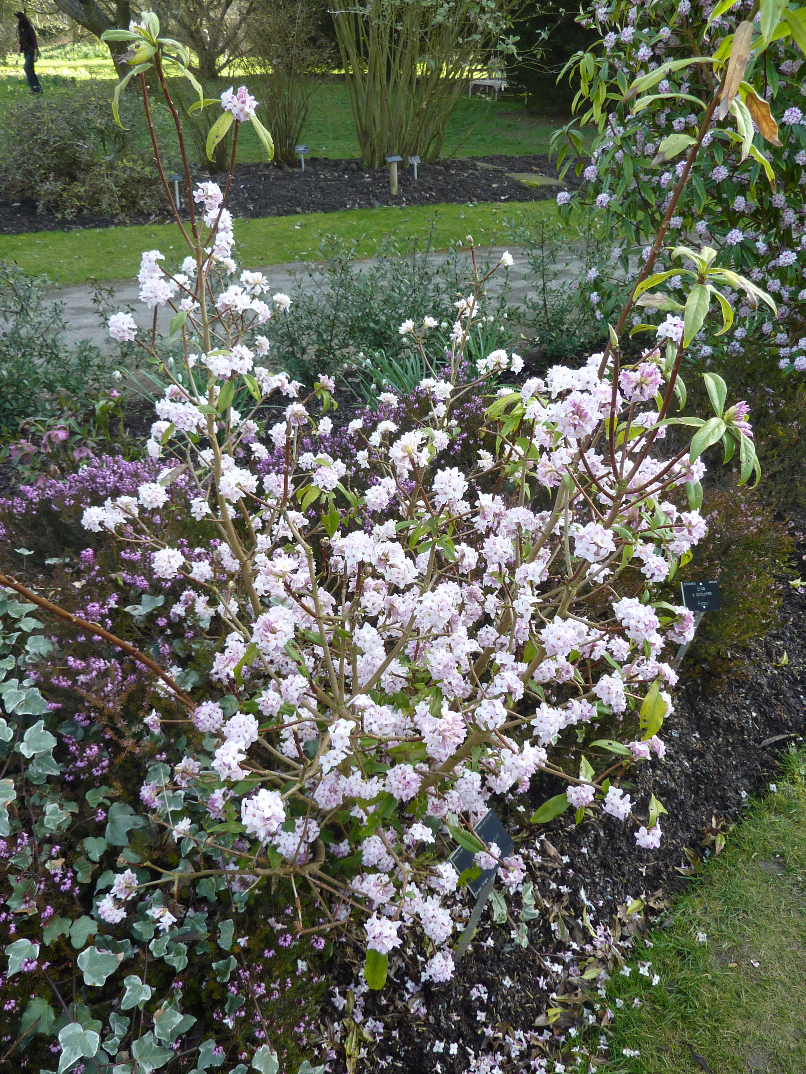 Taken in the Cambridge University Botanic Garden.